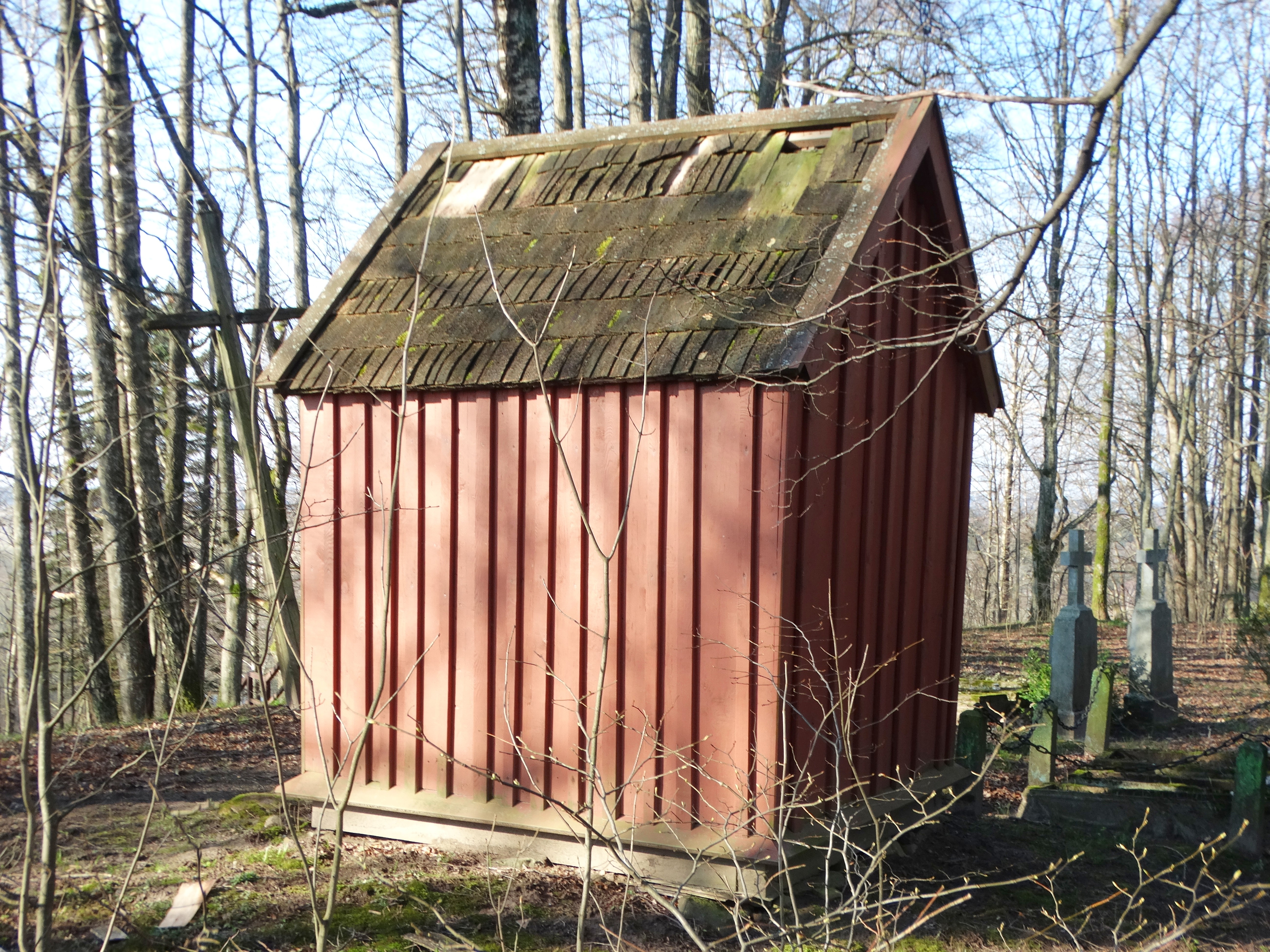 Žvaginiai hillfort. chapel, Klaipėda District, Lithuania